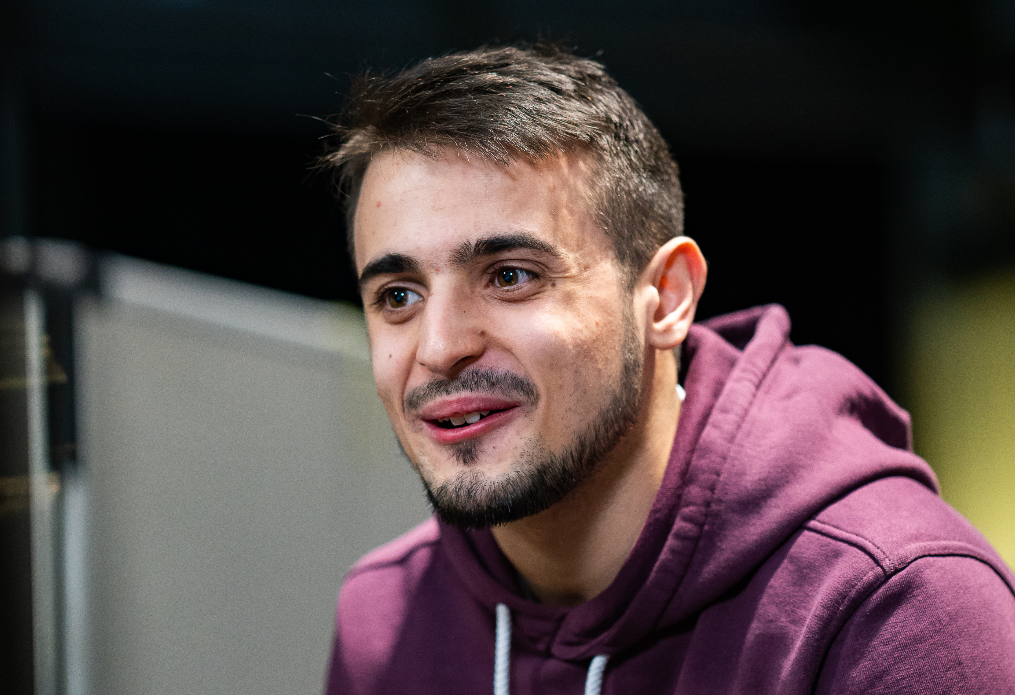 Professional Super Smash Bros player Glutonny at day 1 of Valhalla III